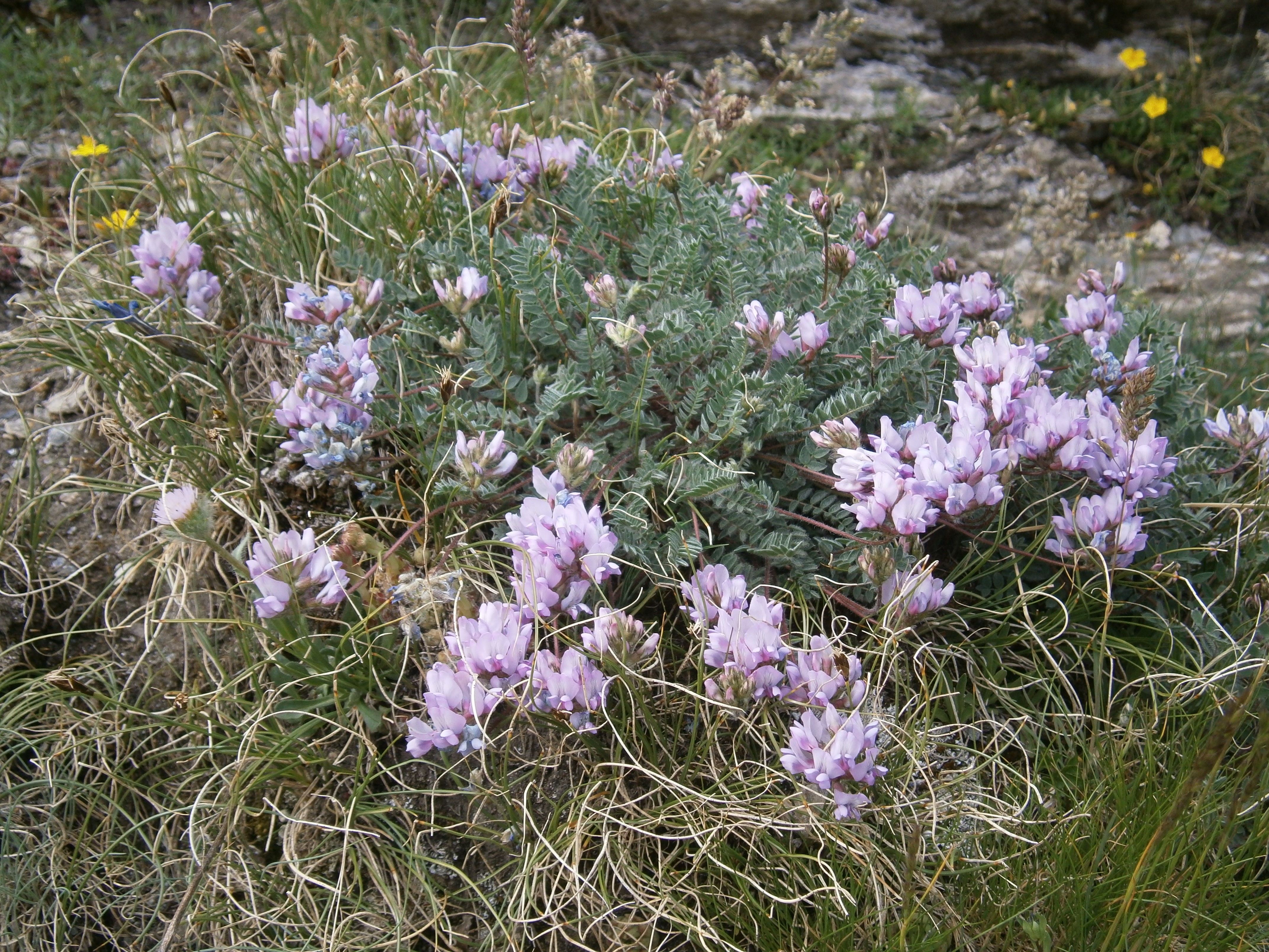 Oxytropis helvetica